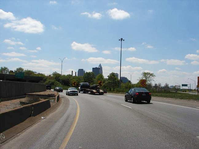 I-90 westbound just past the SR-2 split, "Dead Man's Curve" in downtown Cleveland, Ohio